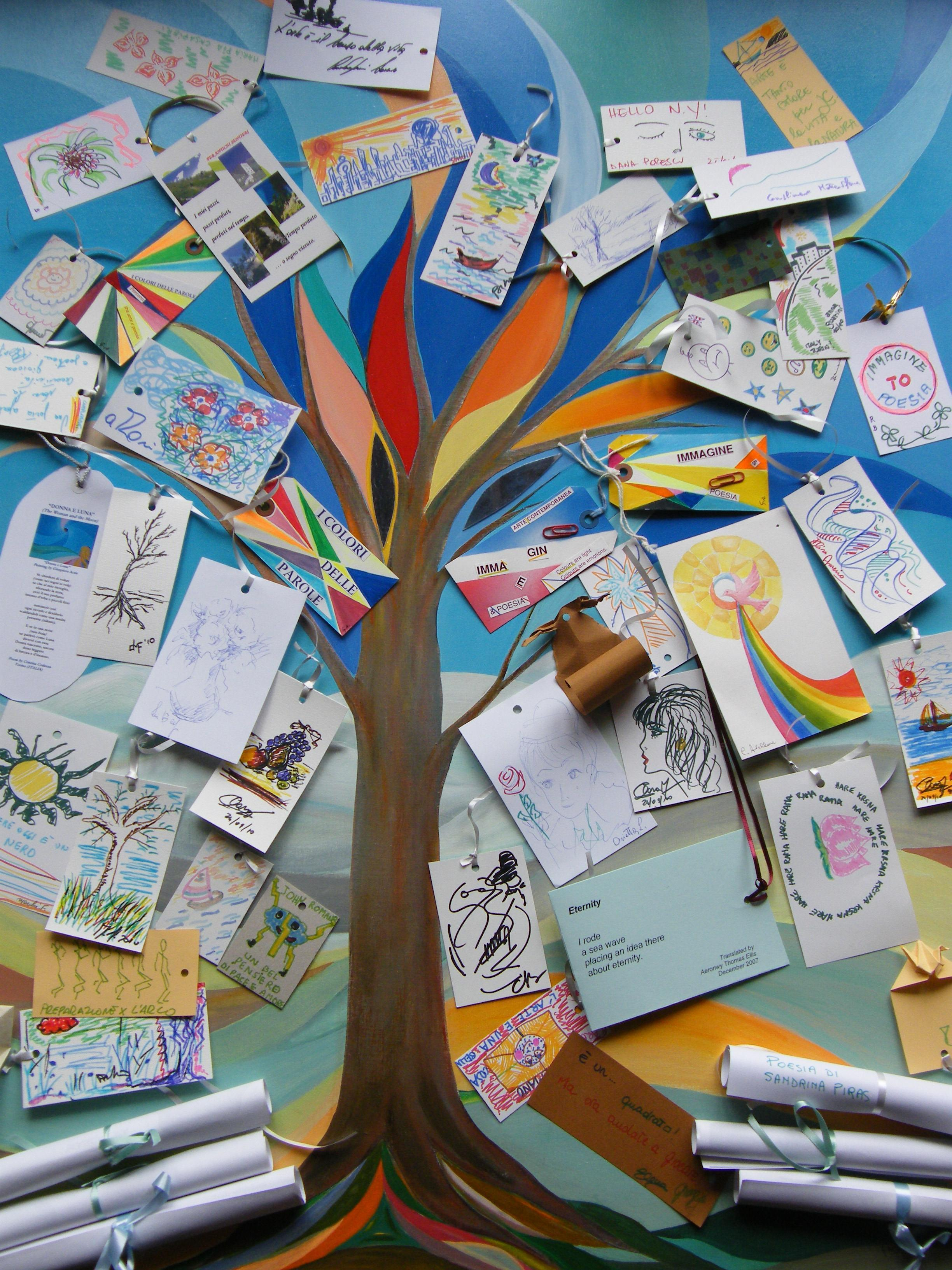 Cards and poems on IMMAGINE&POESIA Wish Tree